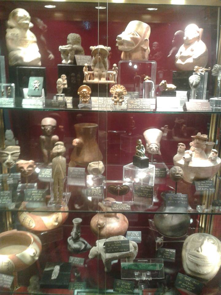 Diverse pre-Colombian statuettes, of various times and various civilizations.